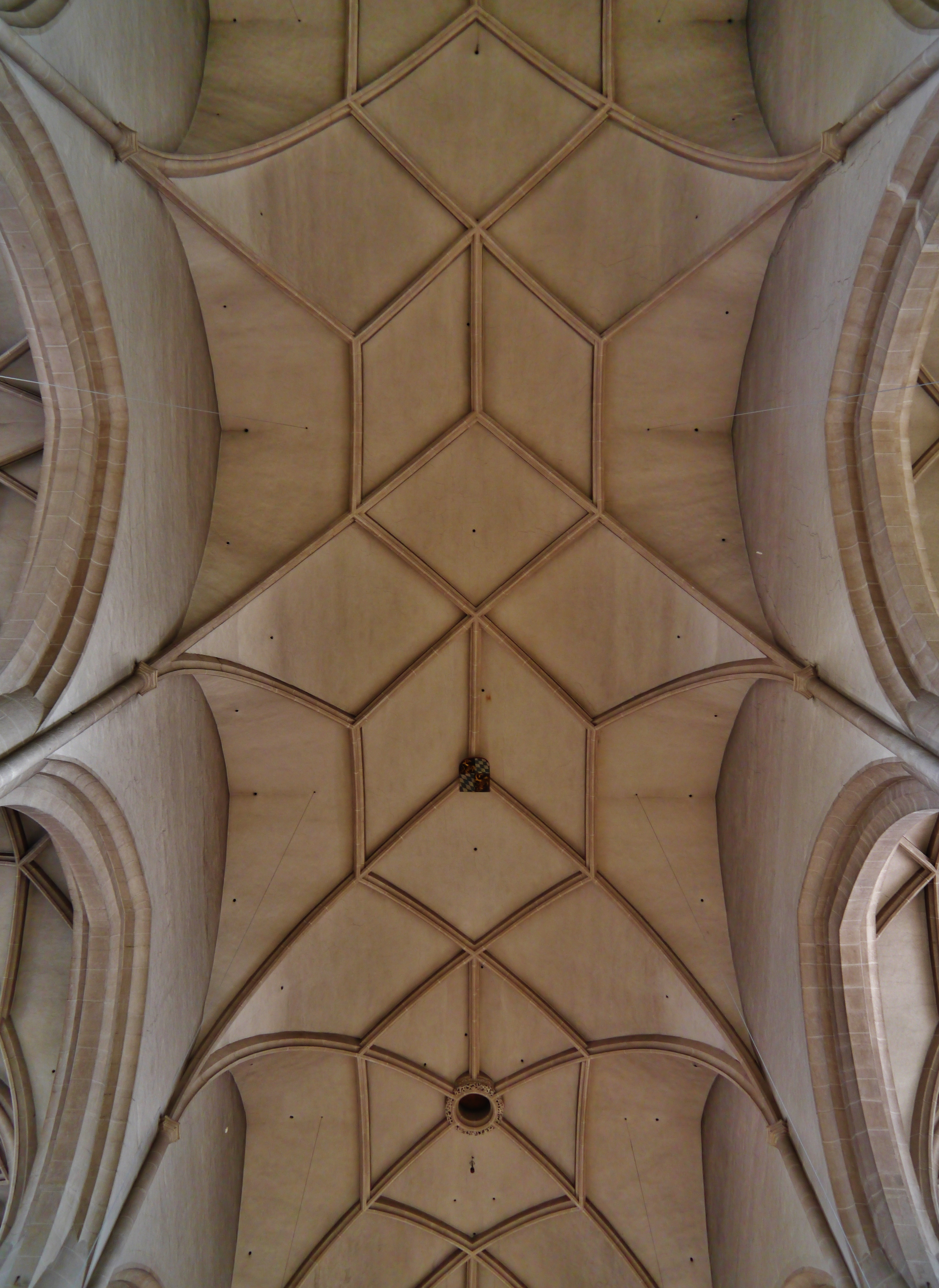 Vault of the Minster of Our Beautiful Lady, Ingolstadt, Bavaria, Germany